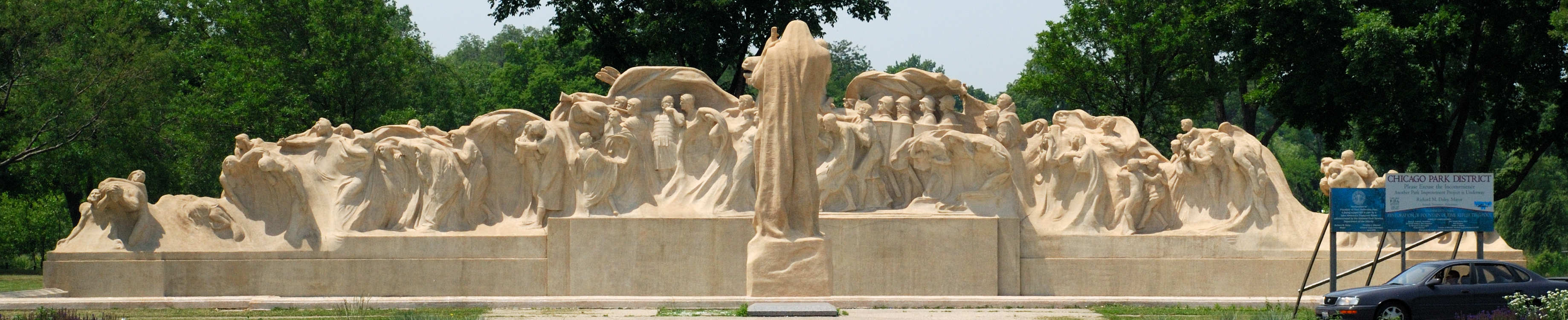 A large image which displays Lorado Taft's Fountain of Time in its entirety. Taken on June 14, 2007 in the noon-day sun. A renovation sign sits on the right.